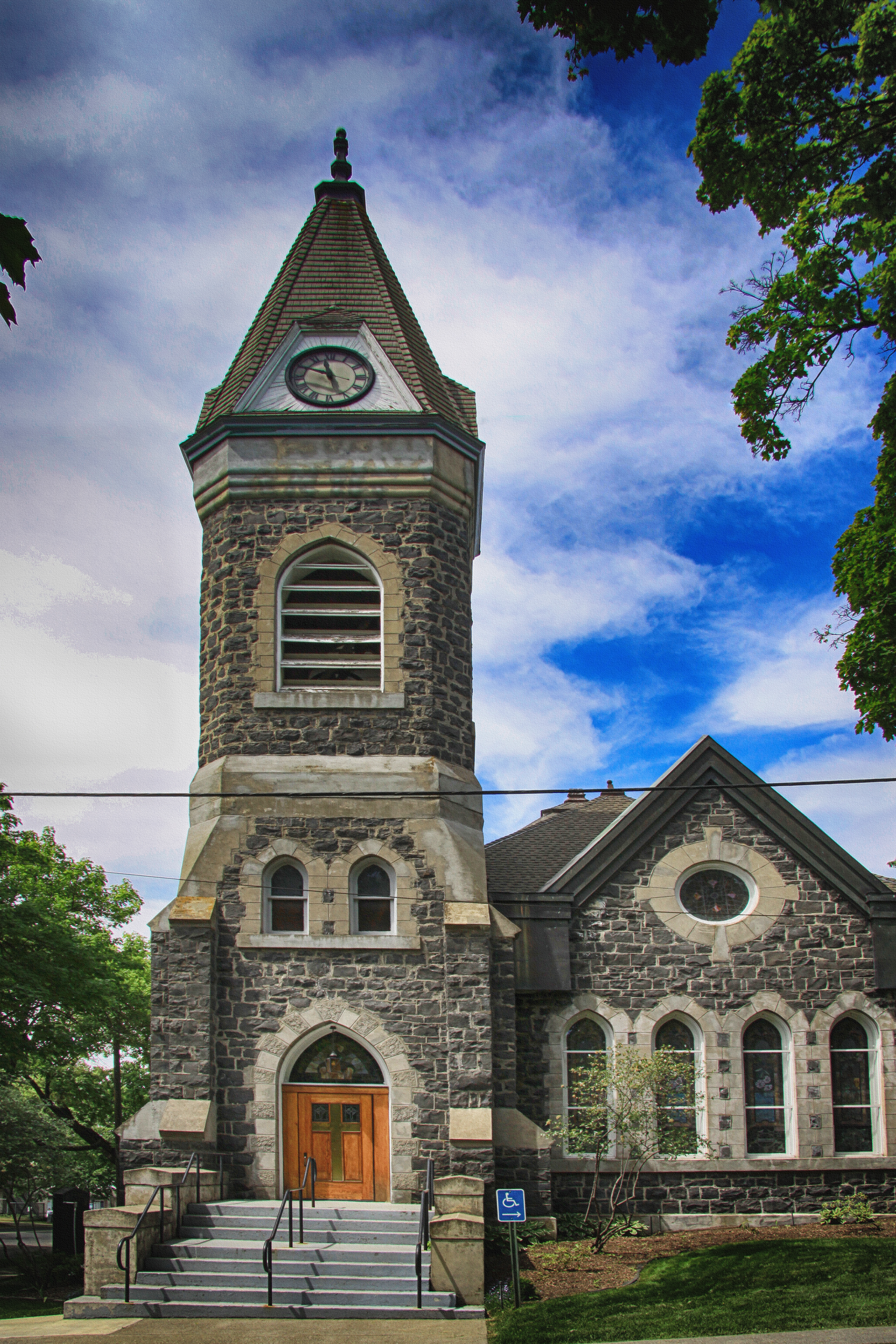 The building of the Moscow First United Methodist Church. Location: 322 East 3rd Street, Moscow, Idaho, USA. It was built in 1904.